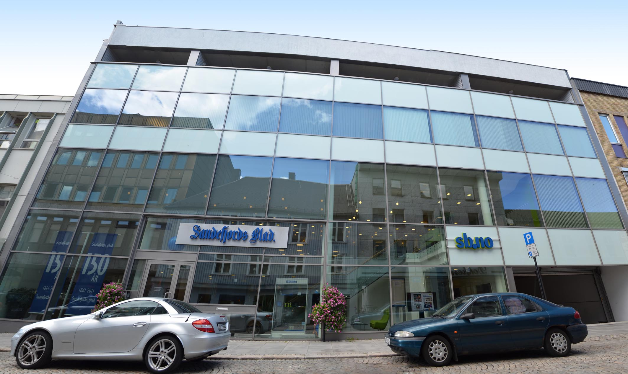 Sandefjords Blad, Sorgata 4, 3233 Sandefjord